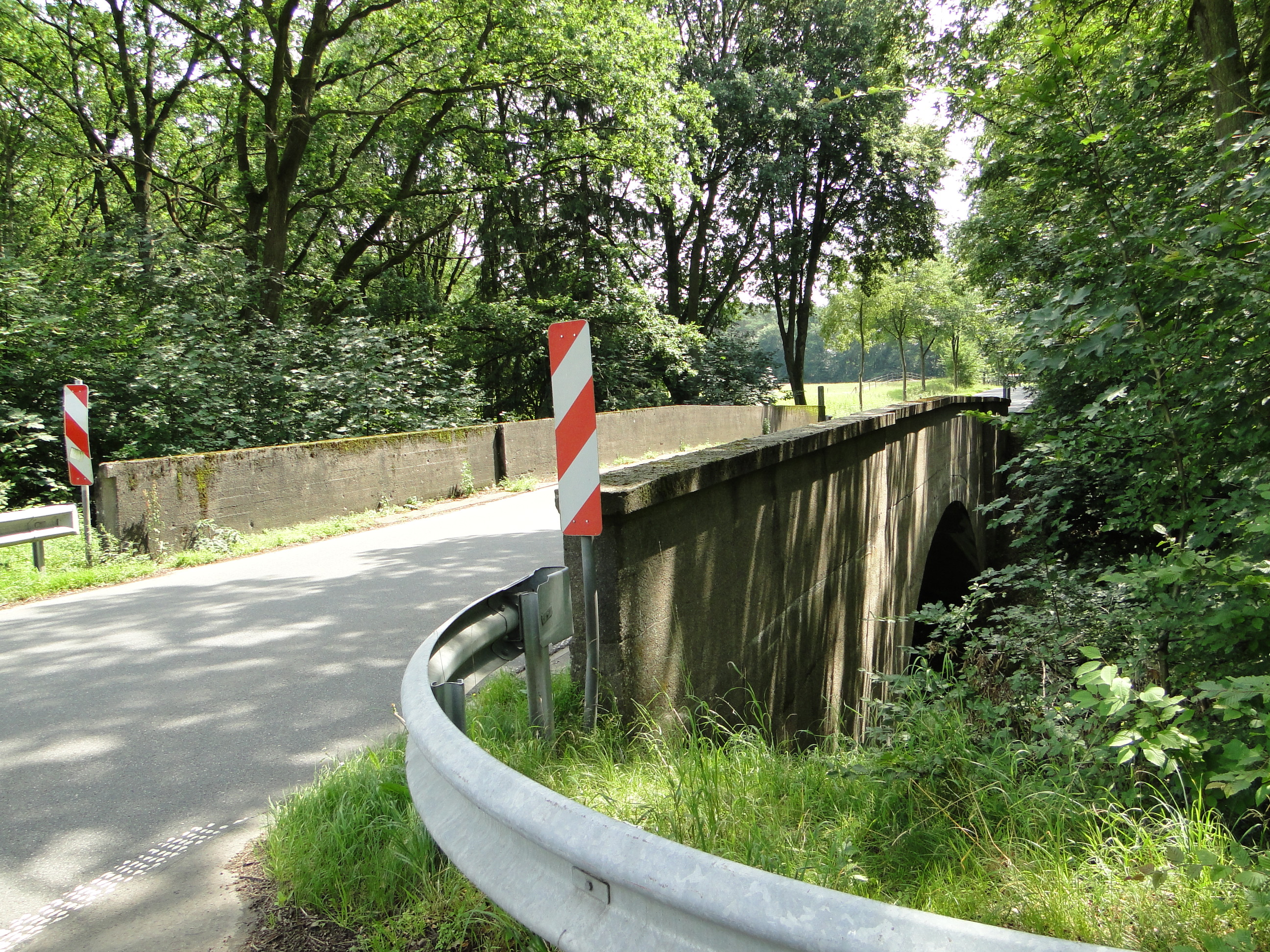 Road bridge over the Schaalseekanal in/near Kogel Siedlung, disctrict Herzogtum Lauenburg, Schleswig-Holstein, Germany